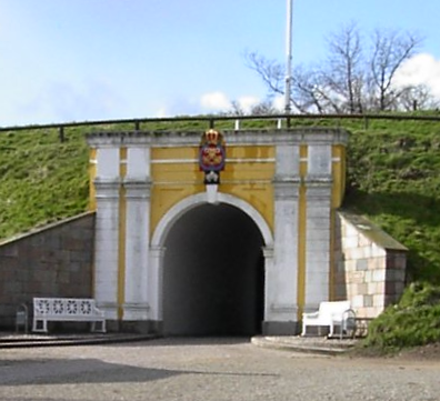 The gate Prinsens Port in the city Fredericia in Denmark.